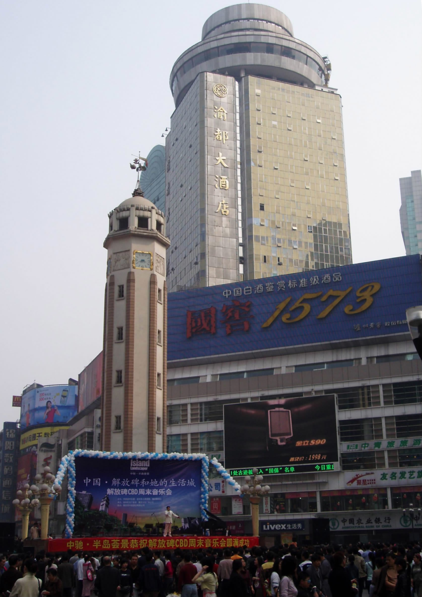 Liberation monumernt in Chongqing, China